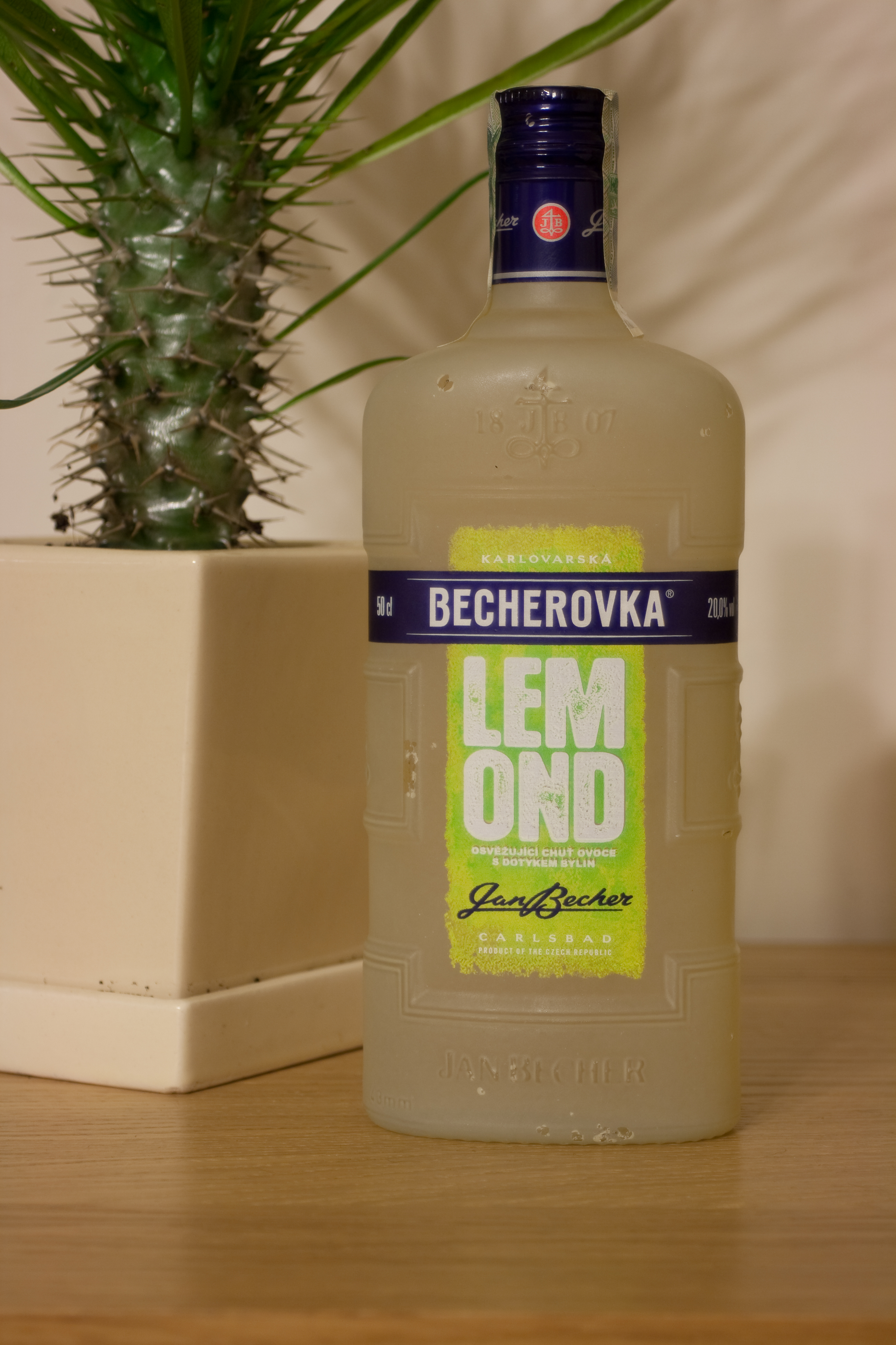 Becherovka Lemond